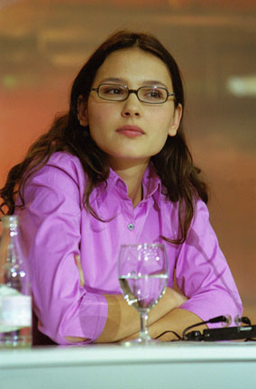 Virginie Ledoyen during press conference of "The Beach"